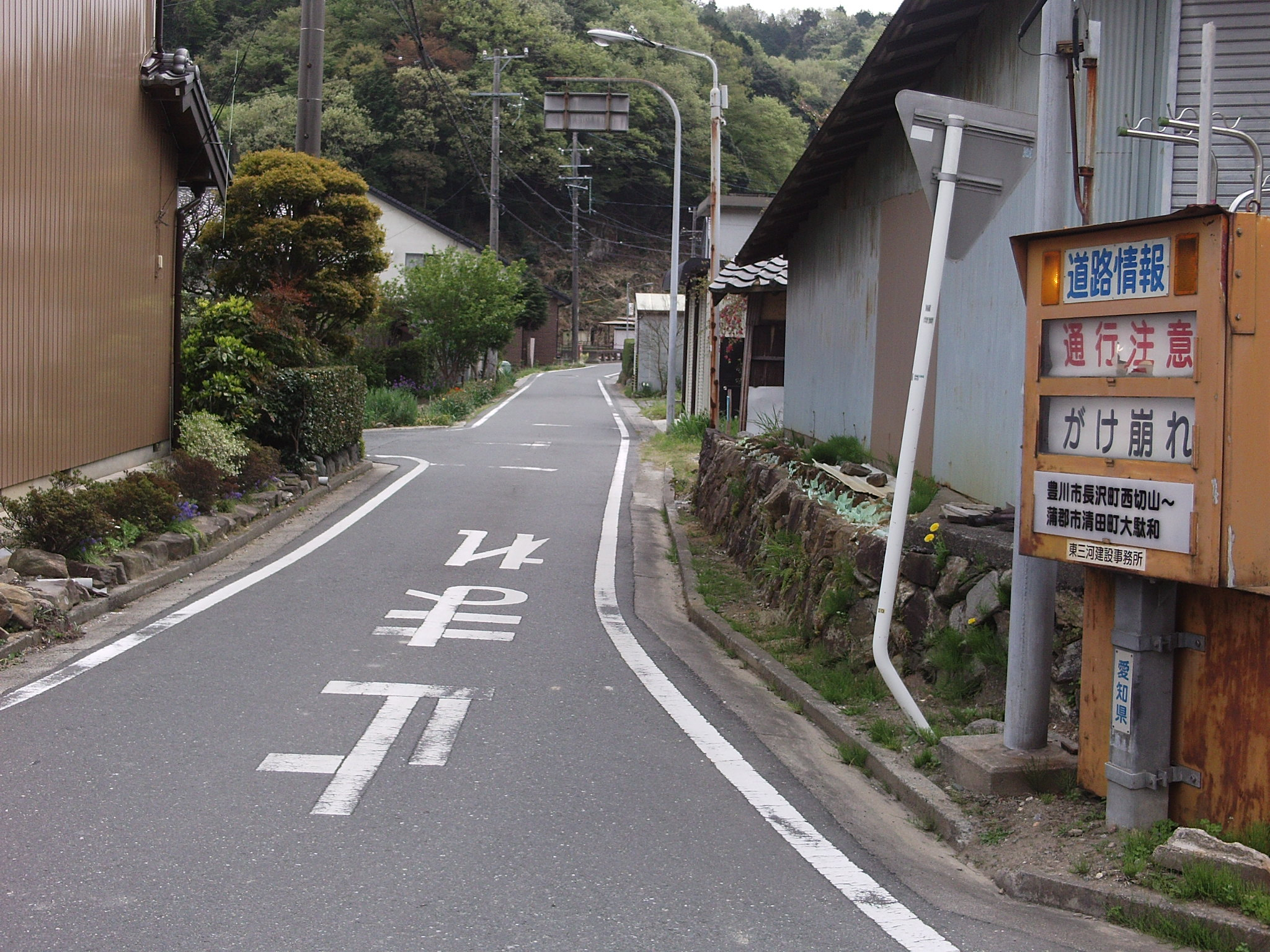 The Aichi Prefectural Road Route 73 in Yamaguchi, Nagasawacho, Toyokawa City. Sign on the far right reads: "Attention required/Landslide"